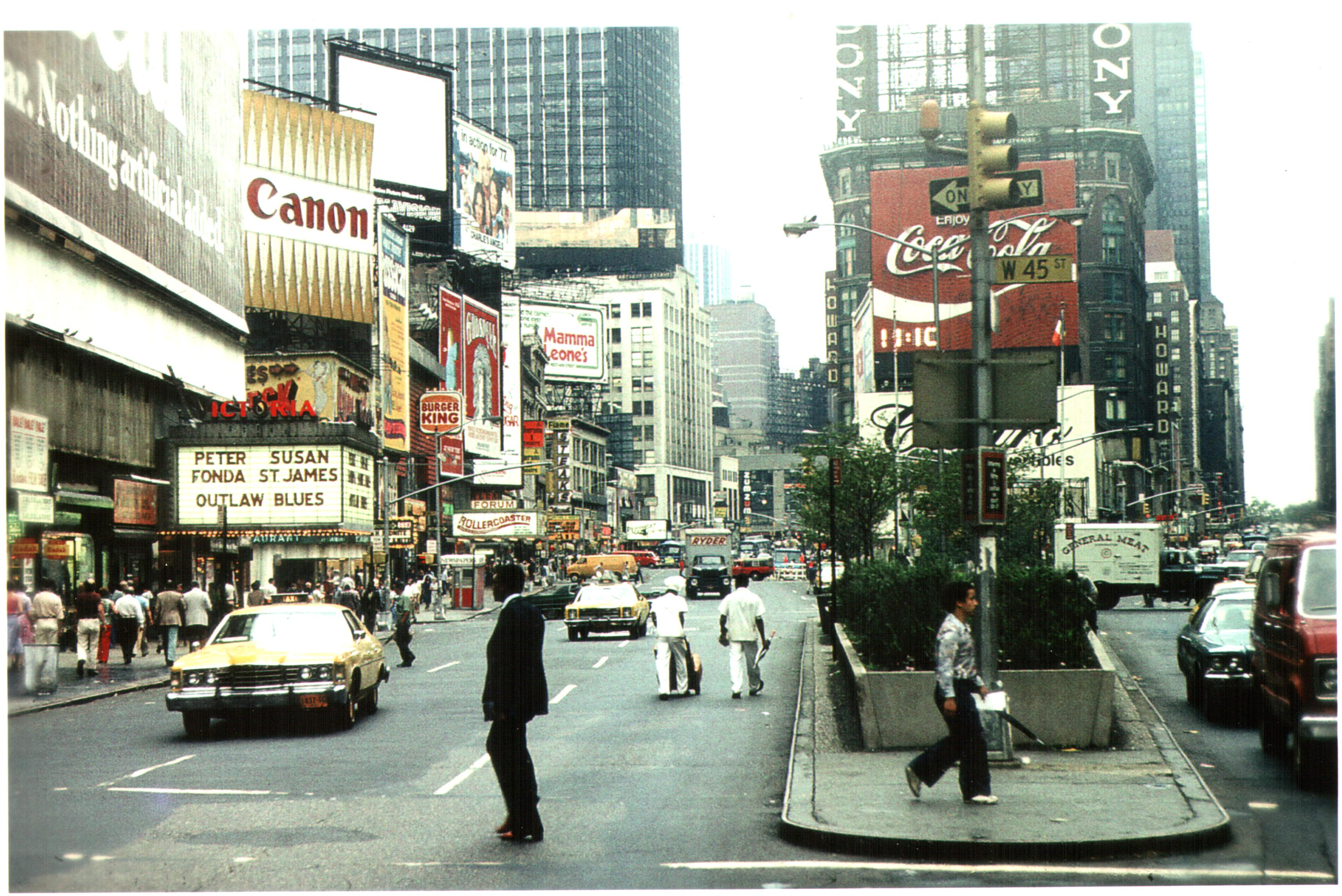 Live at New York. 1977. From the 23rd of July, 1977. Megjelent Creative Commons alatt a Metapolisz DVD sorozatban.